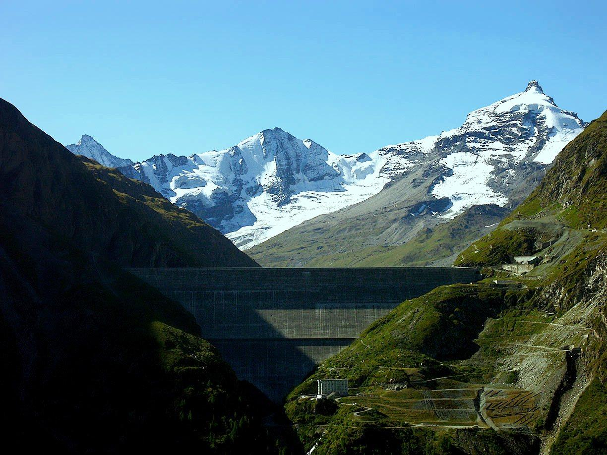 Grande Dixence dam, Valais